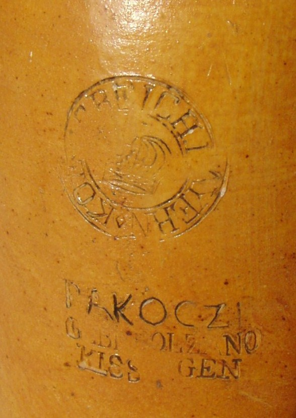 Part of an earthenware jar for transport of Rákóczi mineralwater with the sign (logotype) of Brothers Bolzano, Bad Kissingen, Germany (about 1830)